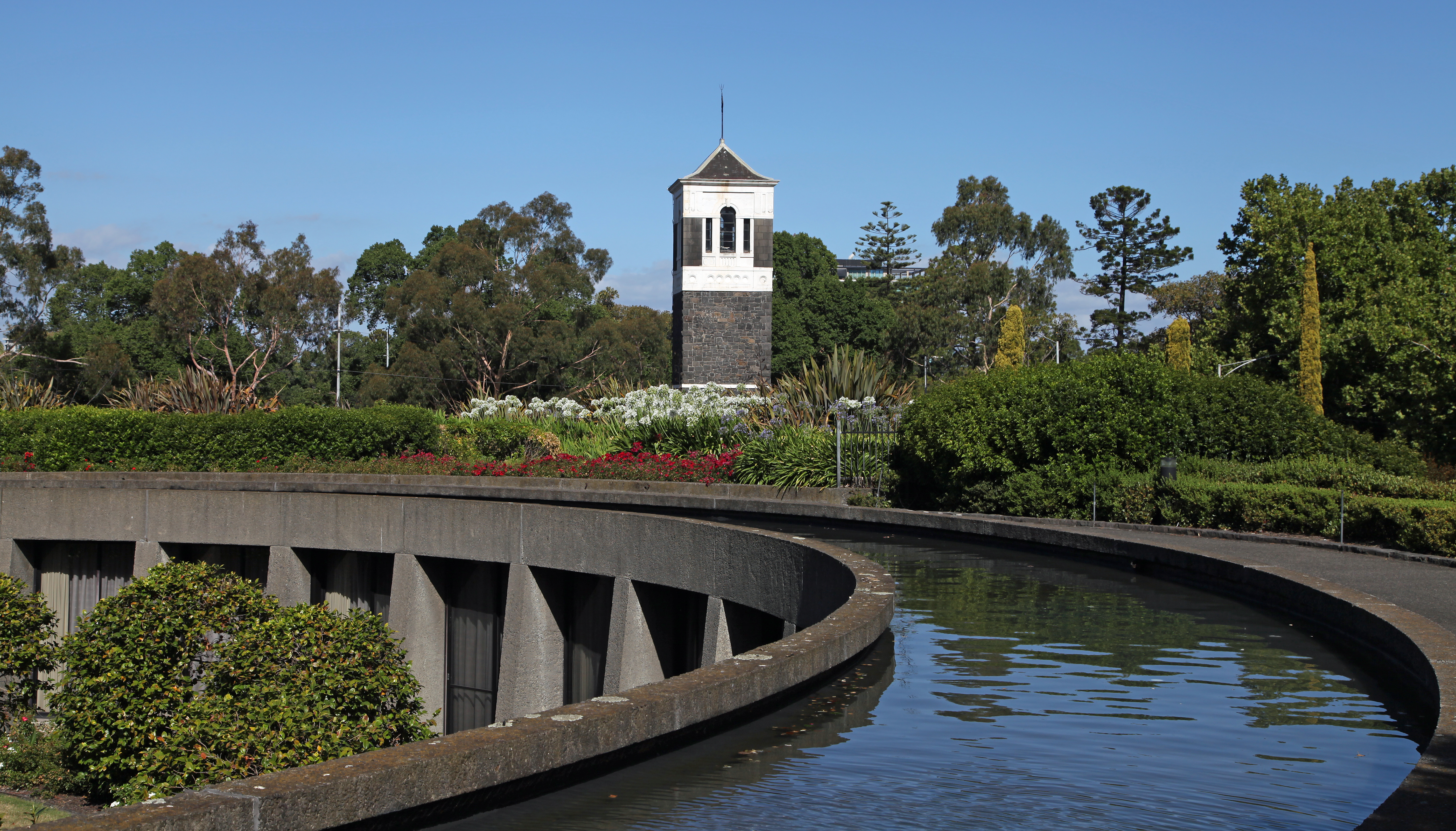 The heritage tower of St Patrick's college (1854 - 1968) in the east side of St Patrick's Cathedral